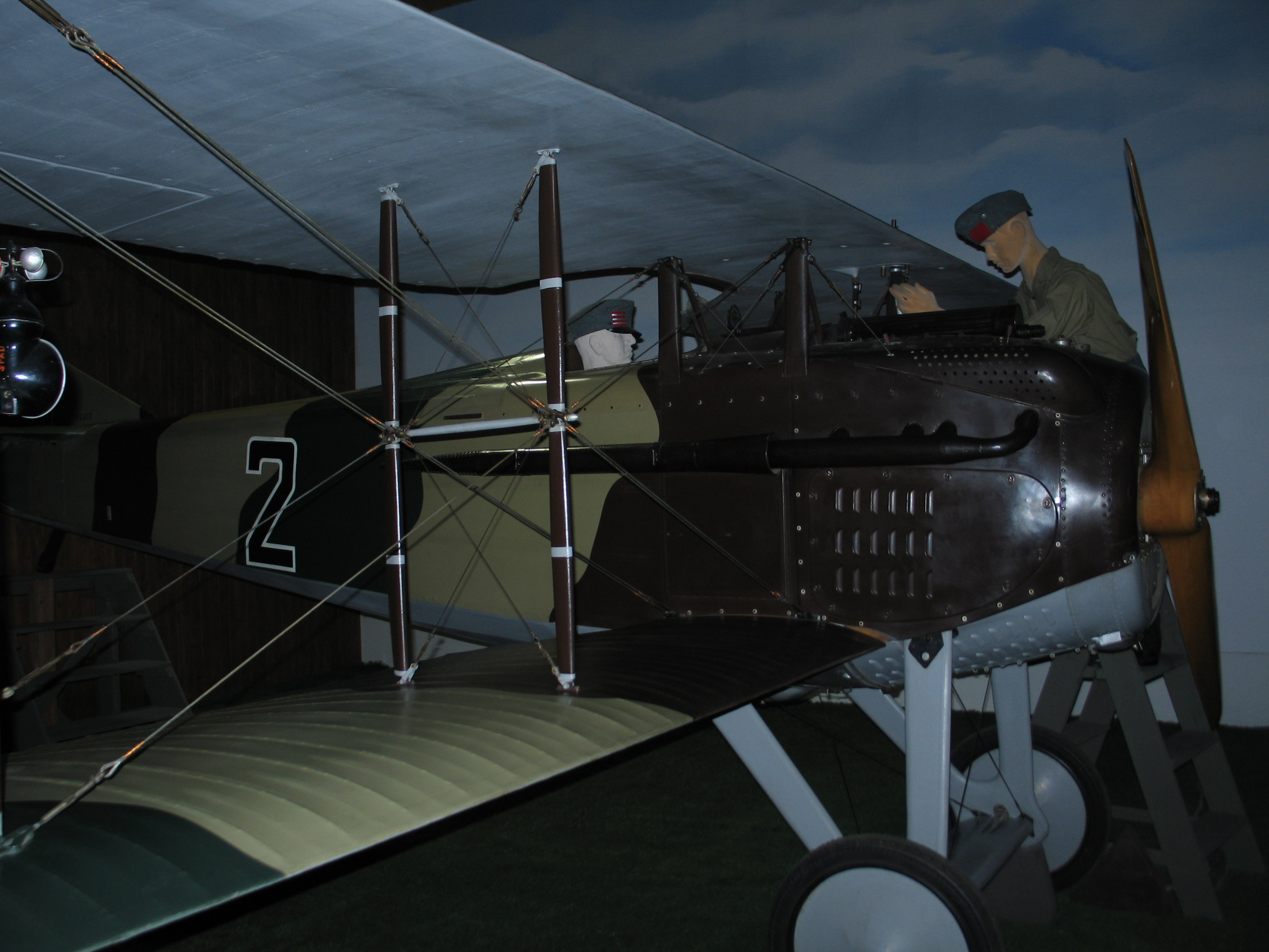 SPAD S-VIIC.1, Kbely museum, Prague